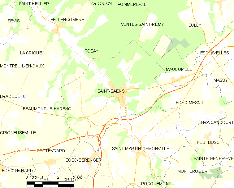 Map of French municipality Saint-Saëns